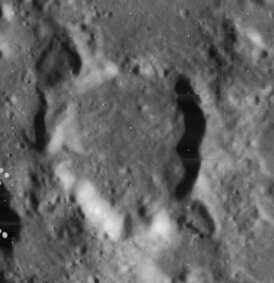 D'Arrest, on the moon.